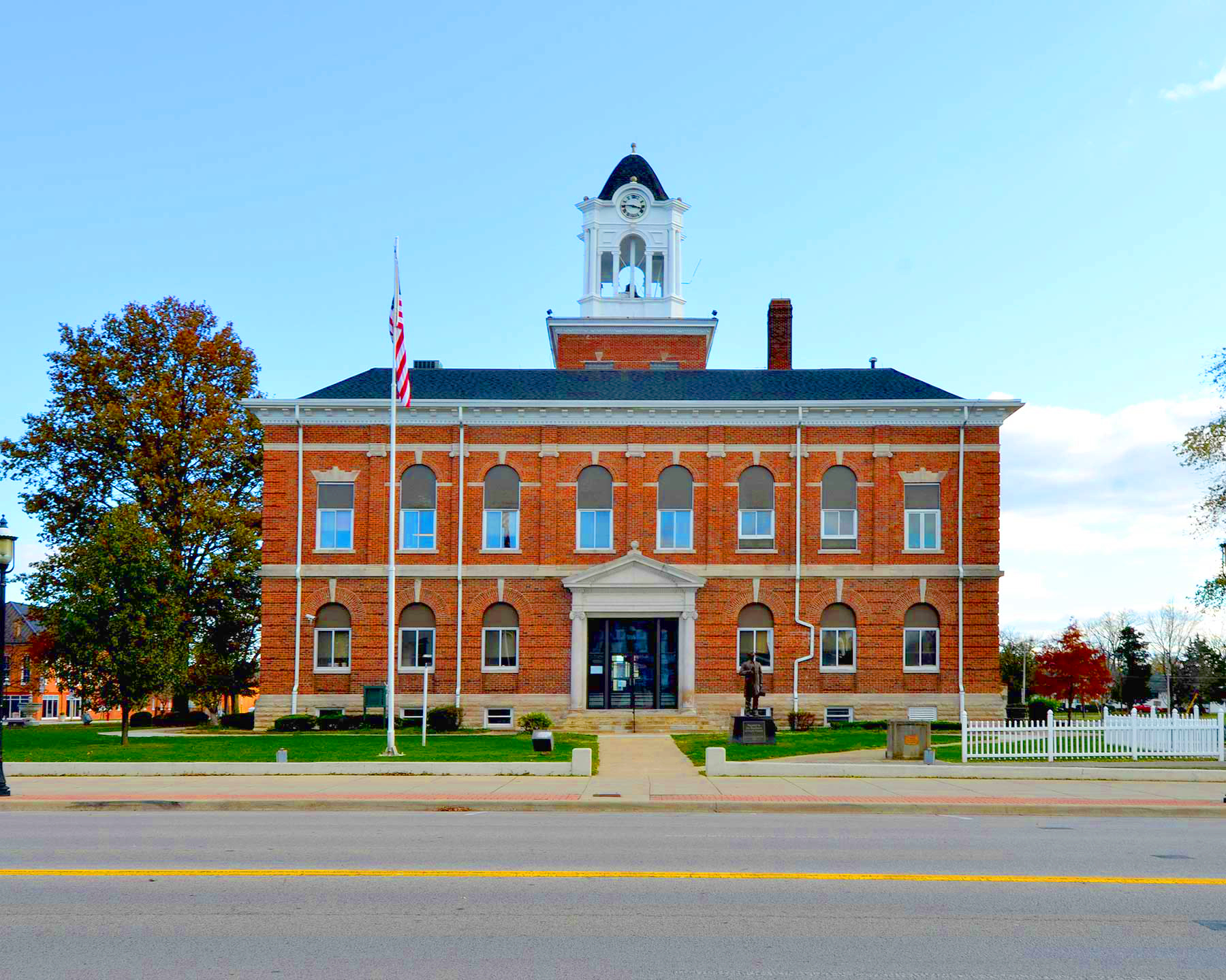 Marshall Illinois City Hall